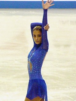 Diana Poth at the 2003 NHK Trophy.